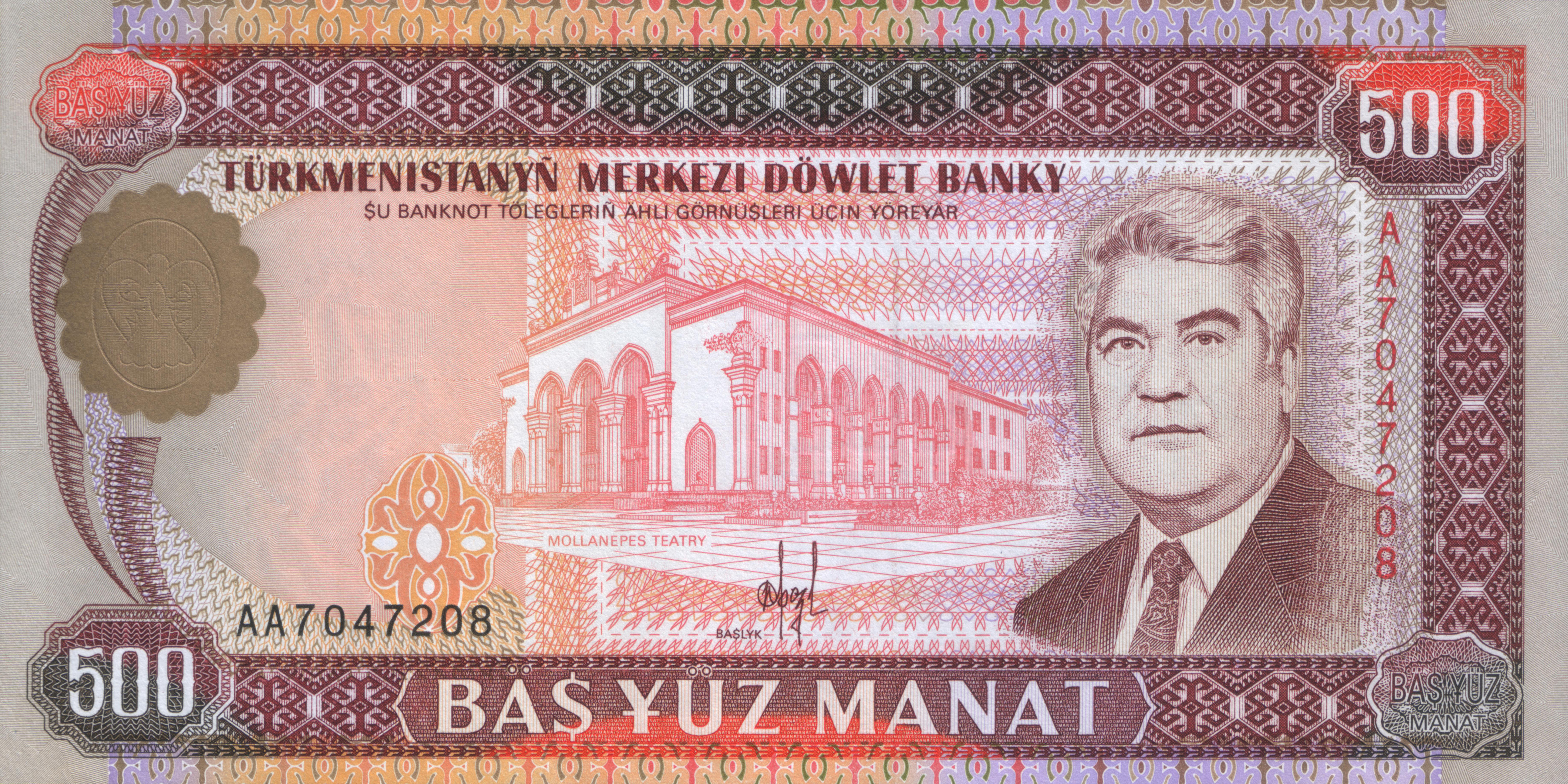 500 manats of Turkmenistan (1993)